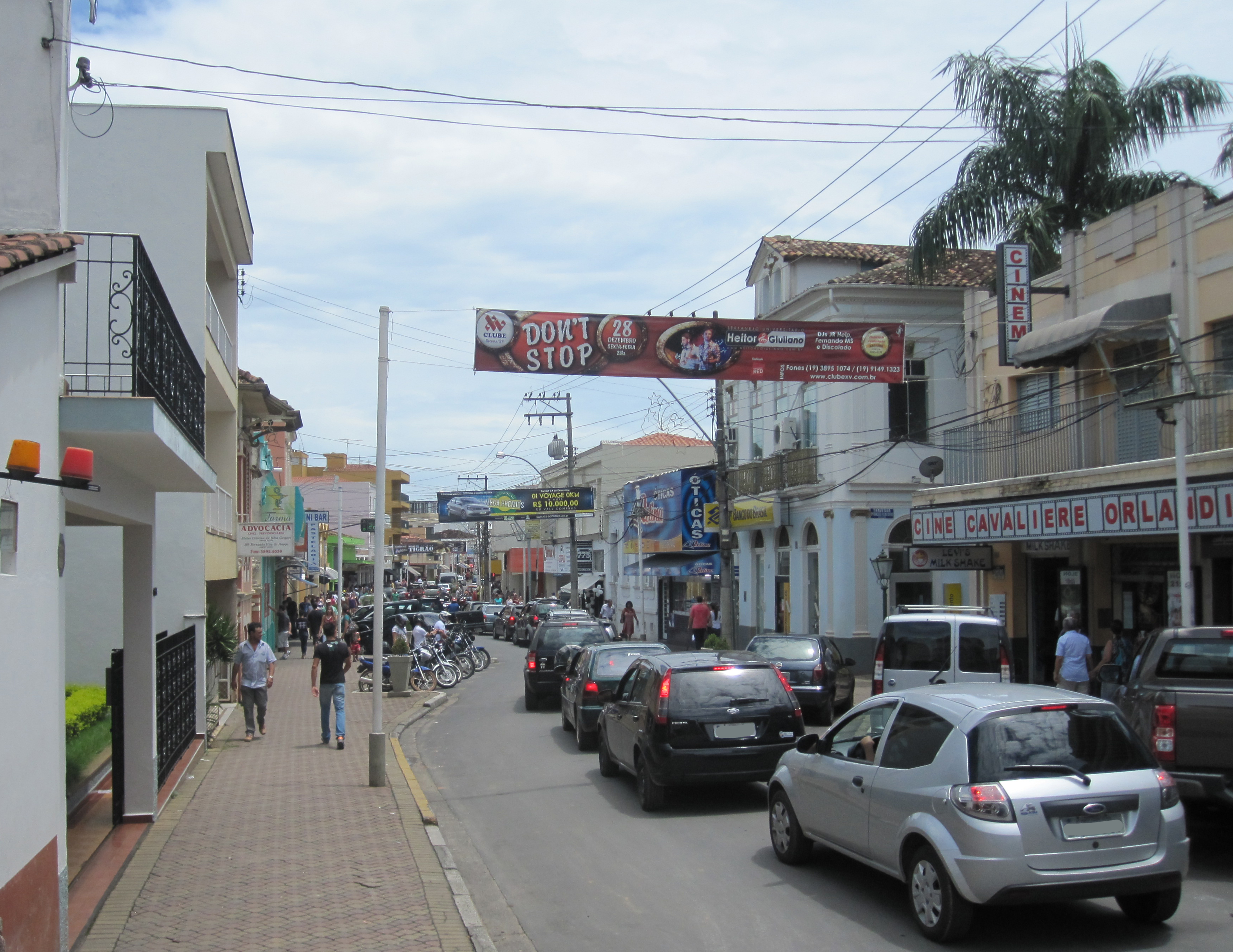 A view of Dr. Campos Salles Street in Socorro city, São Paulo, Brazil.